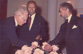 Don McClure photographed with Haile Selassie and Tafara Worq.